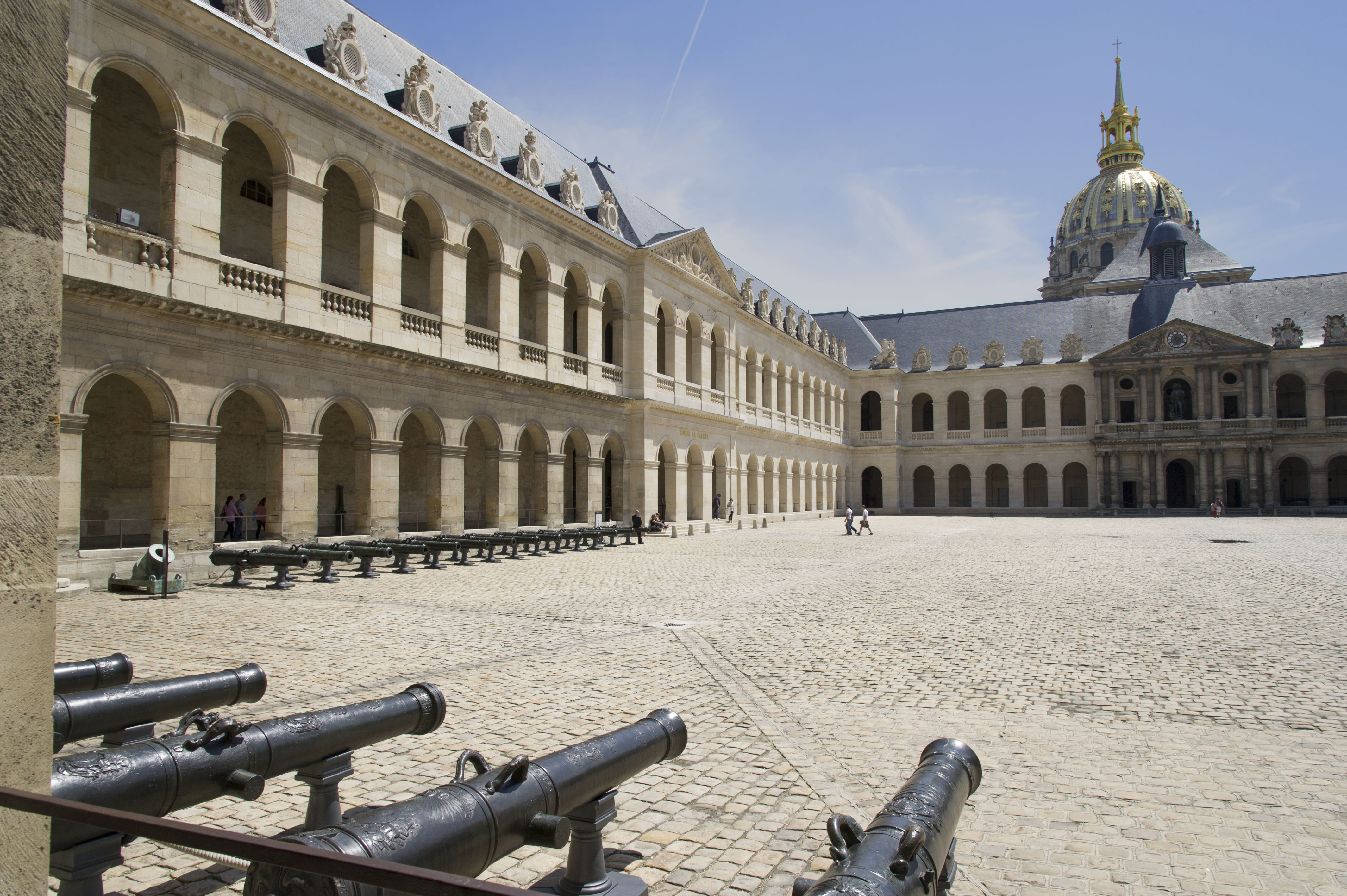 La Cour d'Honneur des Invalides Paris